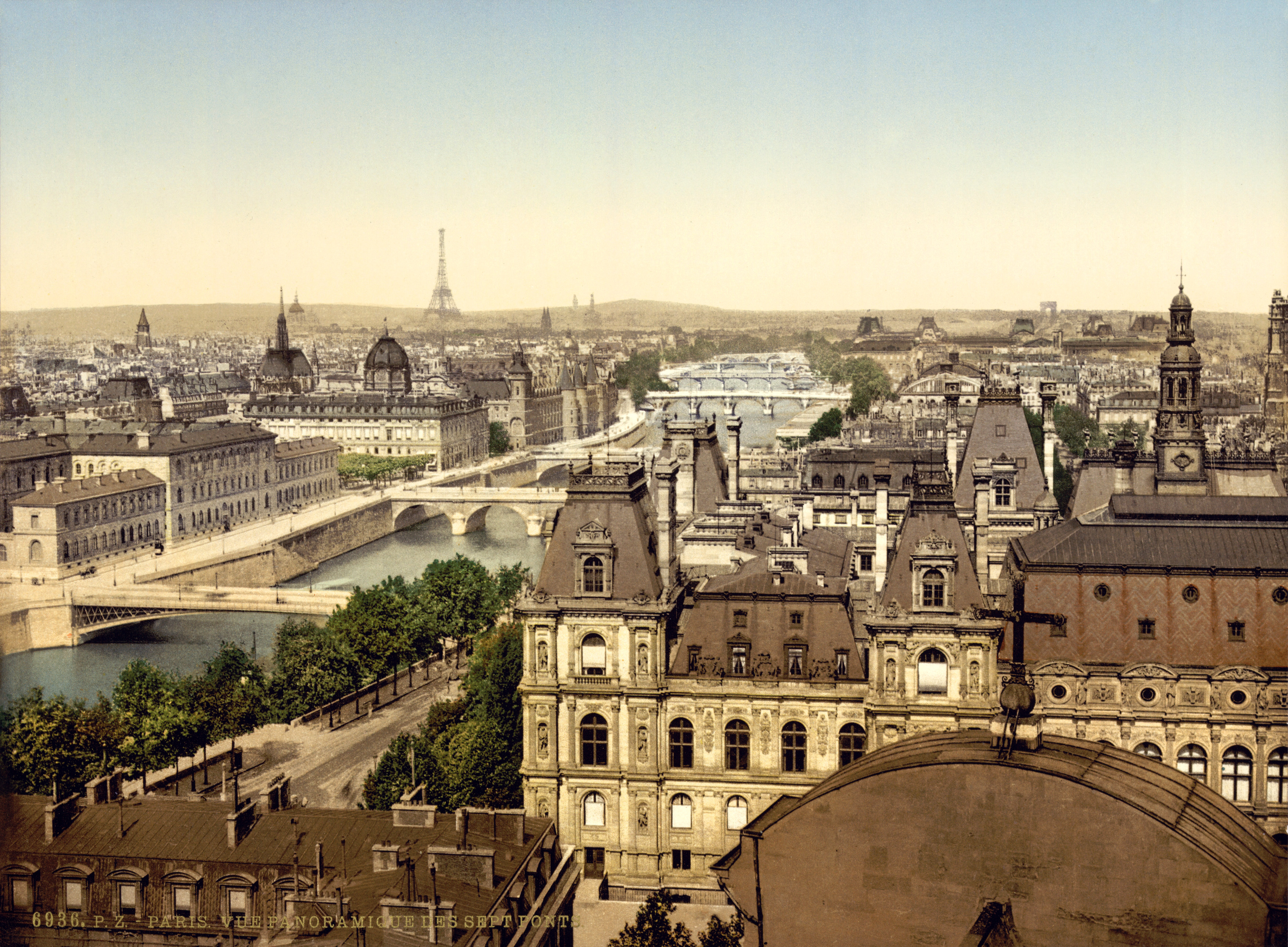 Panorama of the seven bridges, Paris, France.